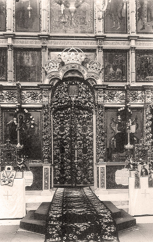 The icons of Kholmogory Cathedral